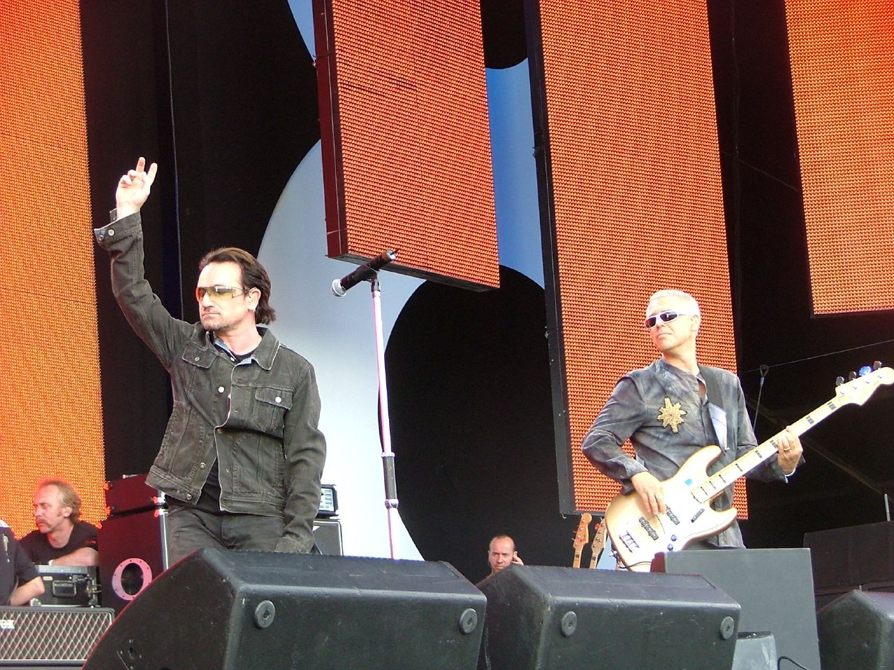 U2 at Live8 in Hyde Park, London.U2